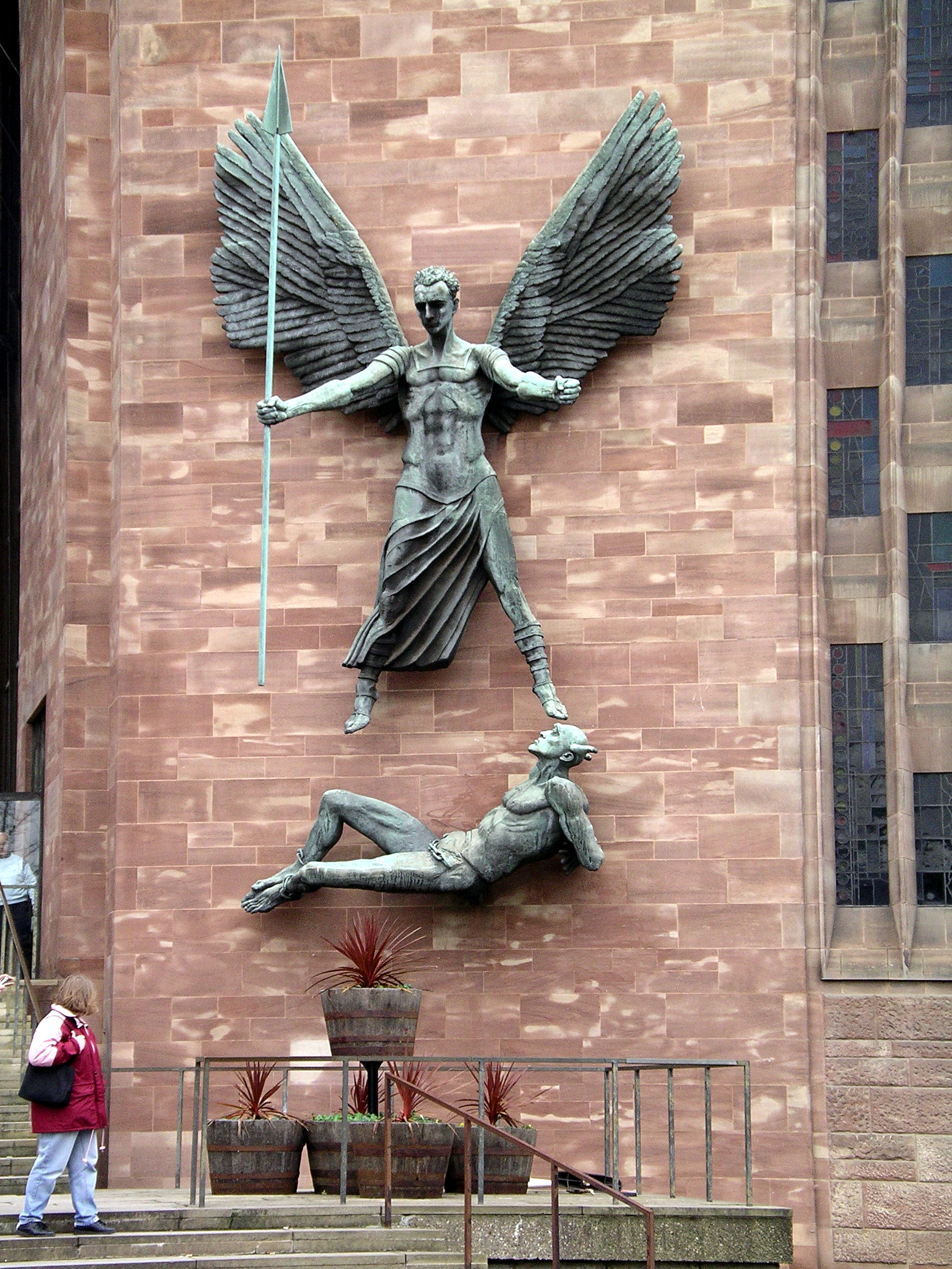 Photo of the statue of St Michael and the Devil outside the new Coventry Cathedral, England. It is called St Michael's Victory over the Devil. Photograph taken from the public pedestrian area between the cathedral and Coventry University buildings.